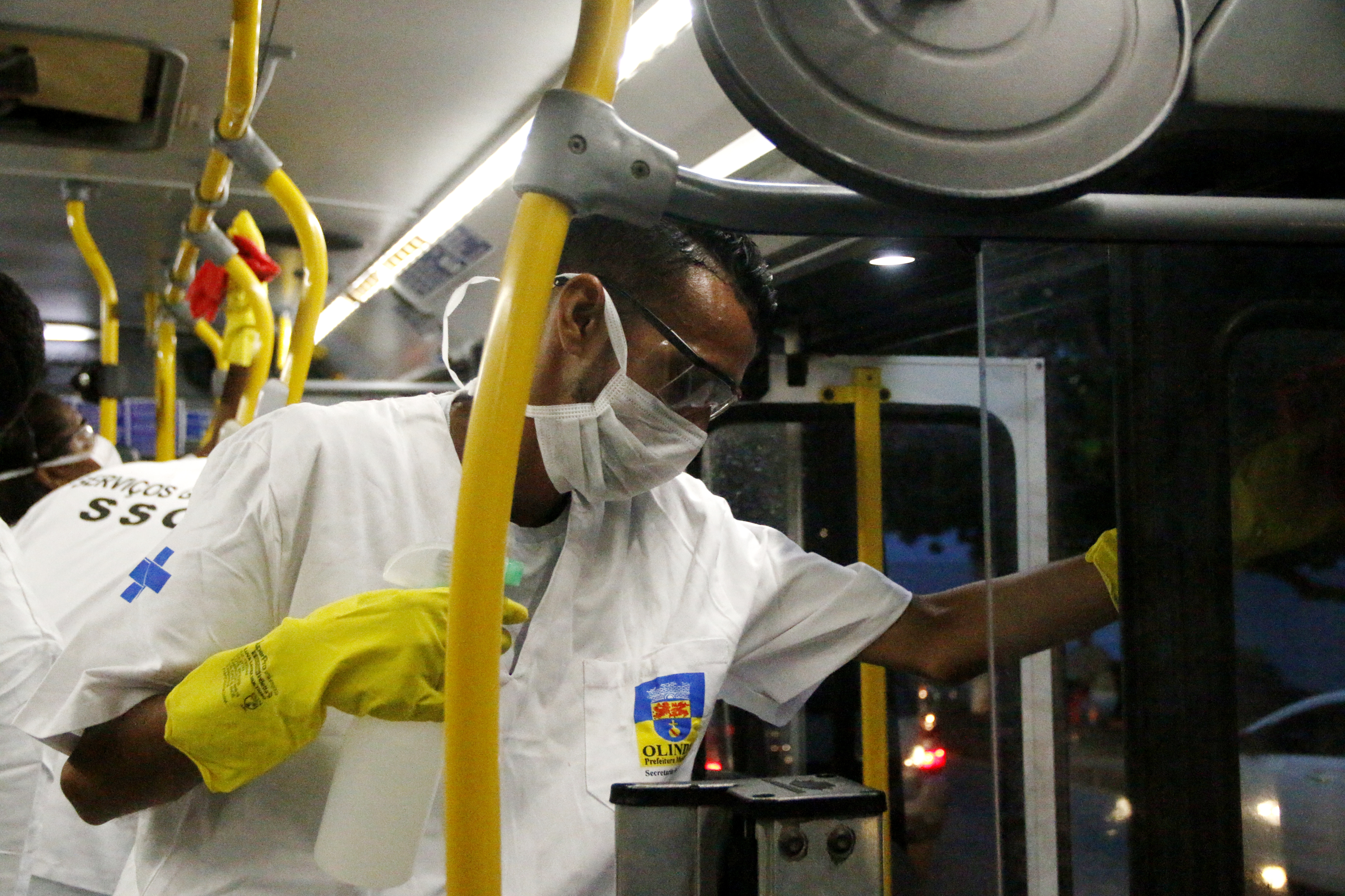 Os profissionais irão atuar no horário de 06h às 22h, nos terminais de Rio Doce e Xambá - Foto: Sandro Barros / PMO